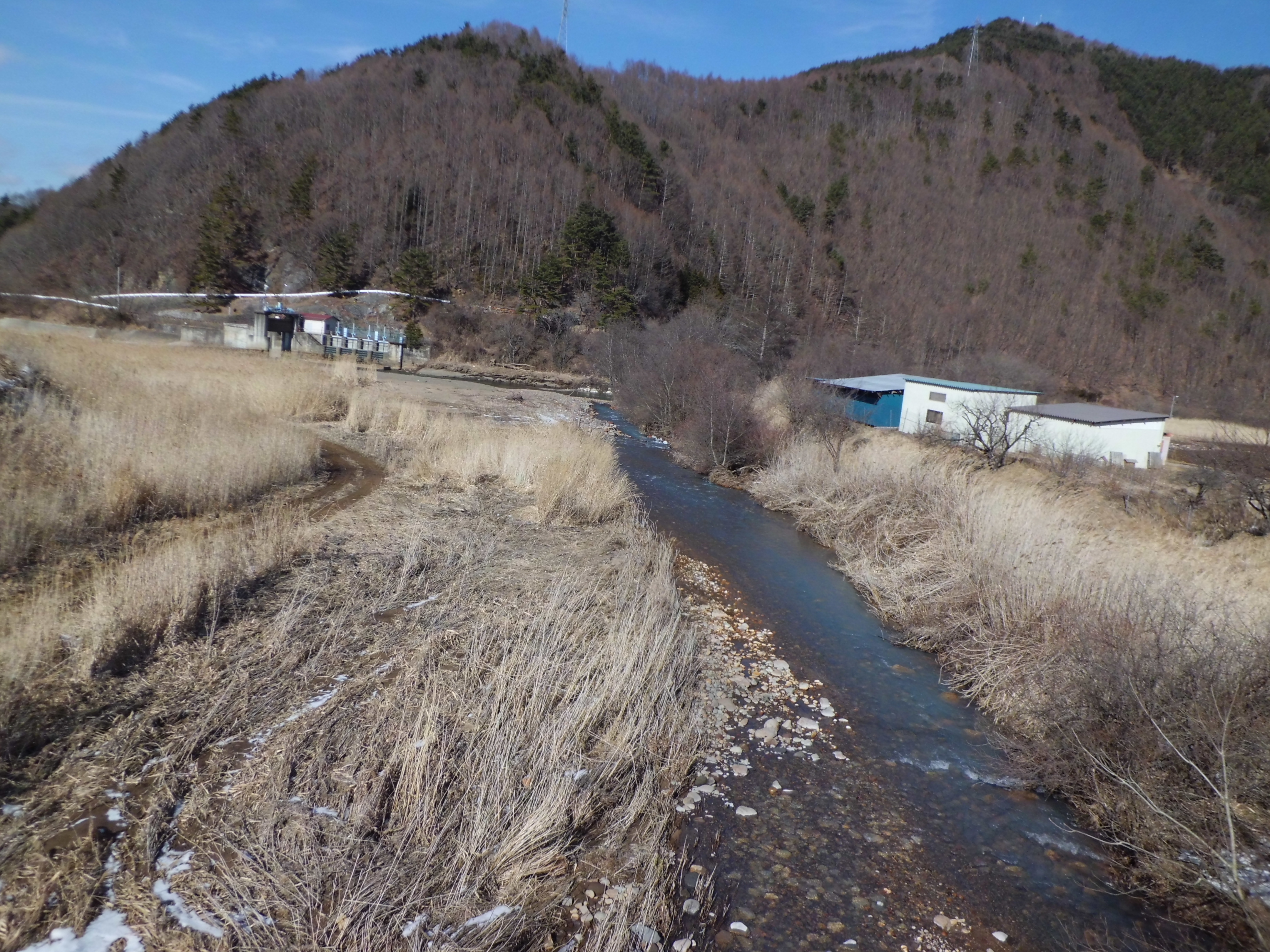 Yugawa River of Minamimaki village, Minamisaku-gun, Nagano prefecture, Japan. Looking at the confluence of Chikuma River from Yukawa bridge.